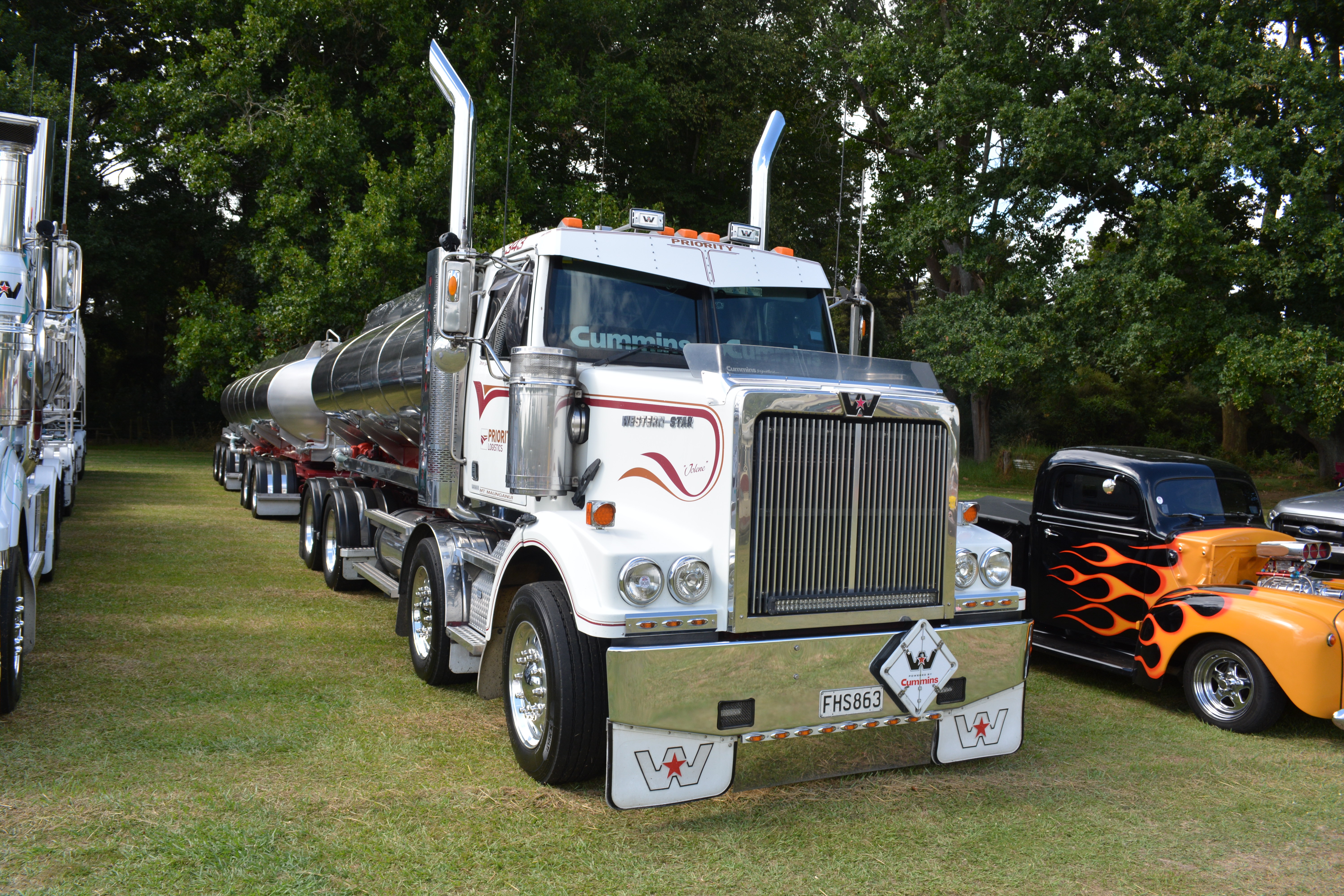 At Morrinsville,New Zealand